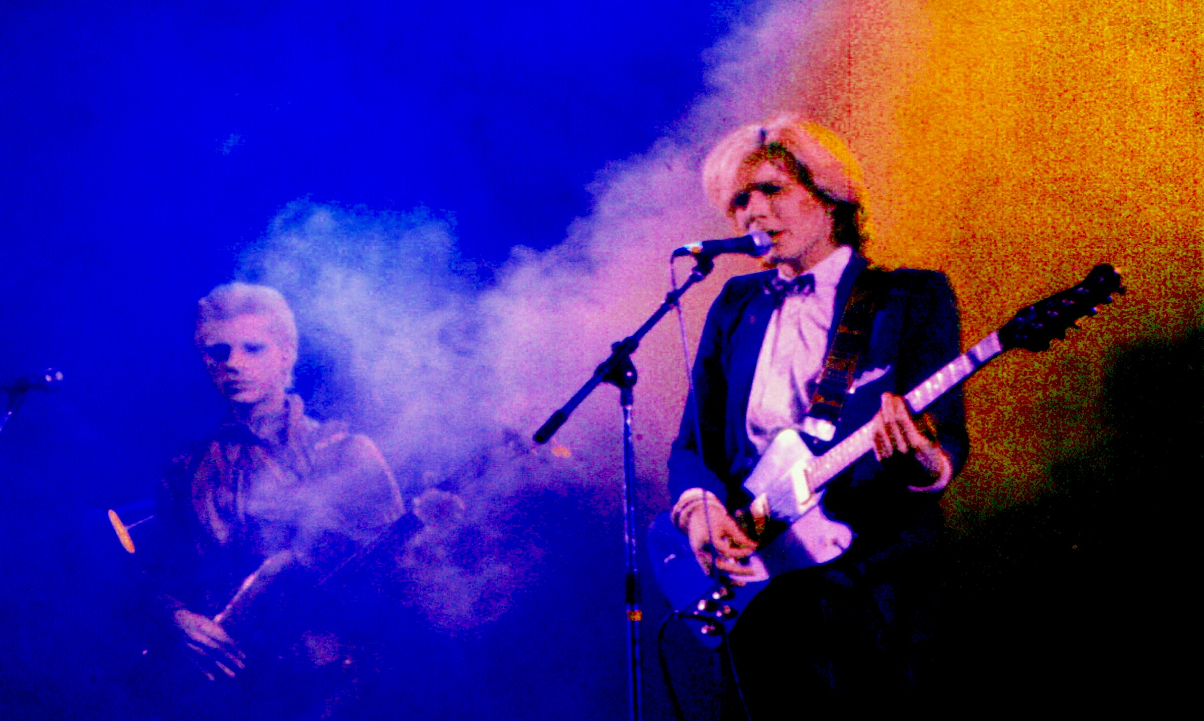 Ryerson Theater, Toronto, Nov. 24, 1979 Photo by Jean-Luc Ourlin